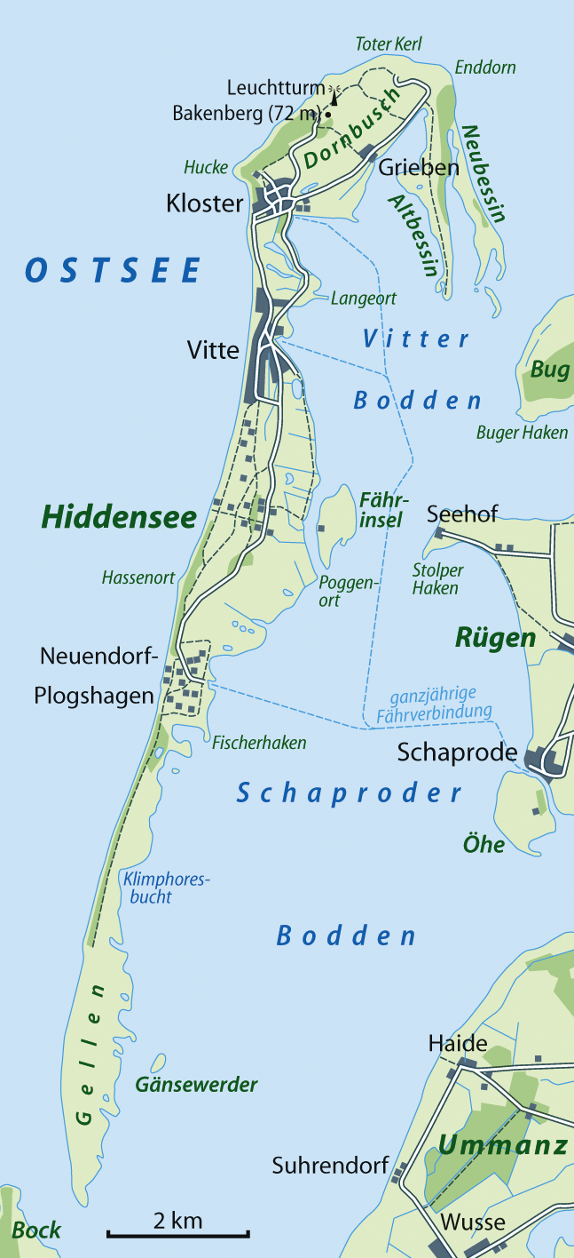 Map of Hiddensee